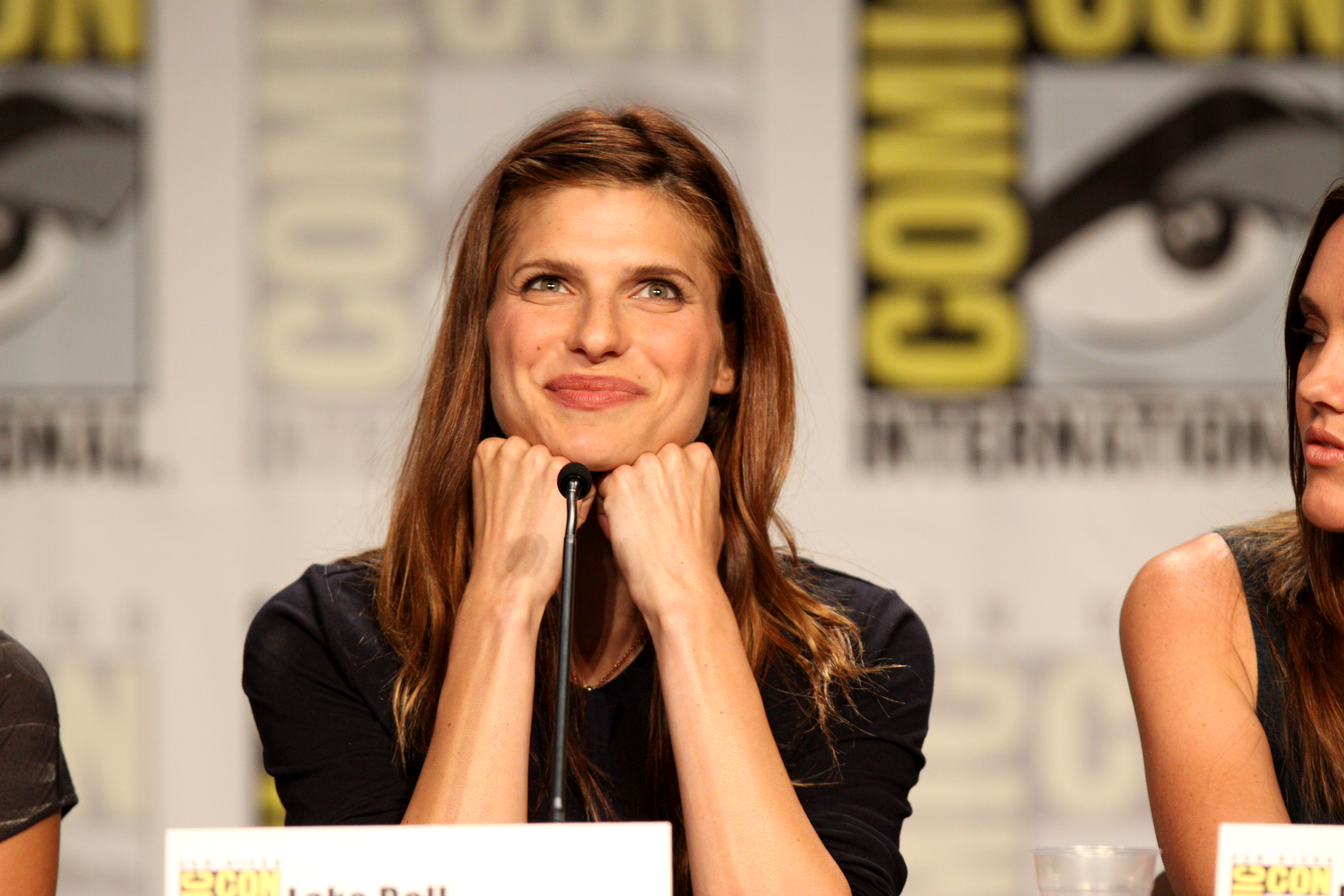 Lake Bell at the 2011 San Diego Comic-Con International in San Diego, California.